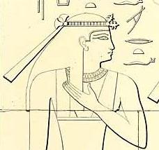 Princess Khentkaues